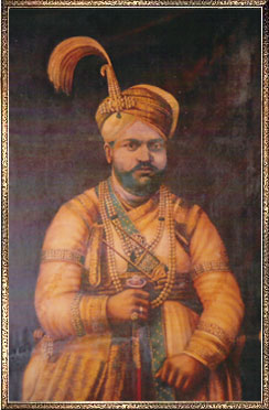 Fourth Prince of Arcot - Sir Muhammad Munawar Khan Bahadur (1889 - 1903)